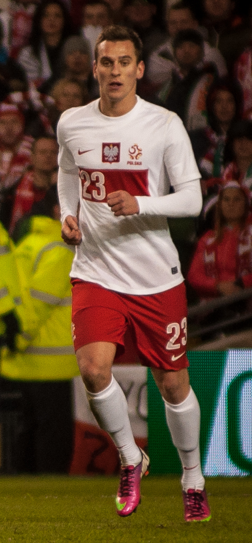 Ireland vs Poland, Aviva Stadium 06.02.2013